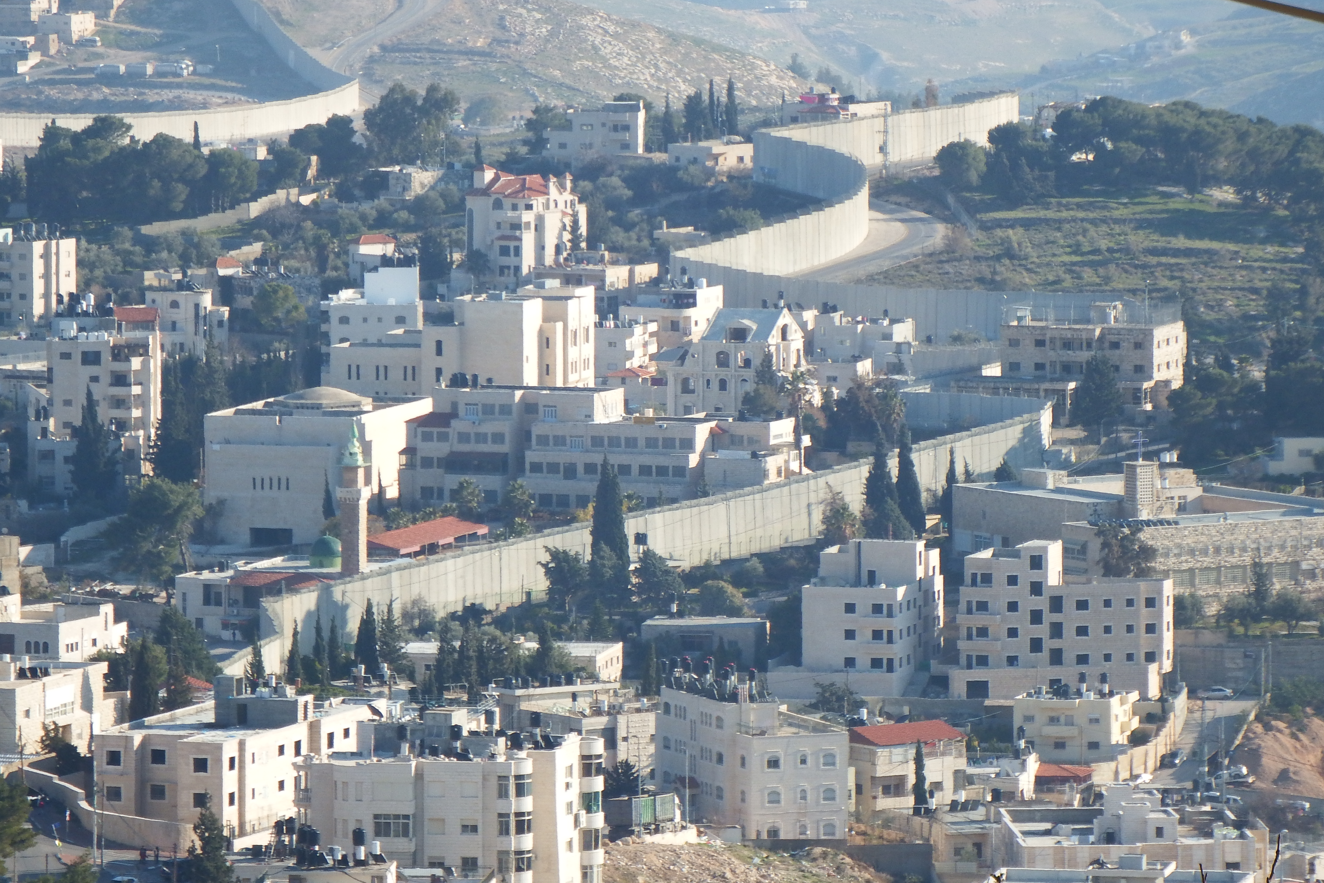 The Security Wall near Jerusalem